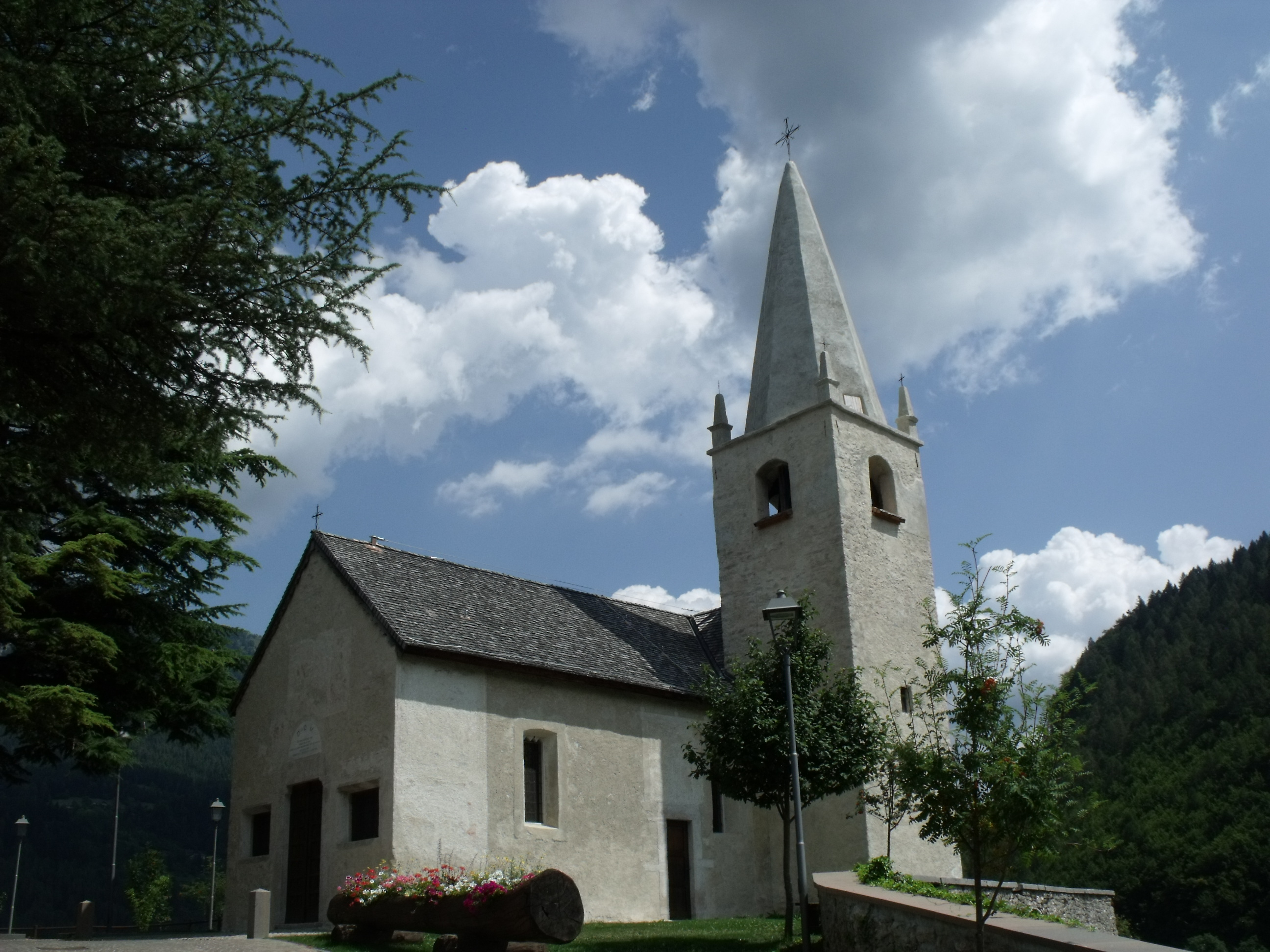 Church of Ippolito and Cassiano in Castello Tesino, Province of Trento, Trentino-Alto Adige/Südtirol, Italy